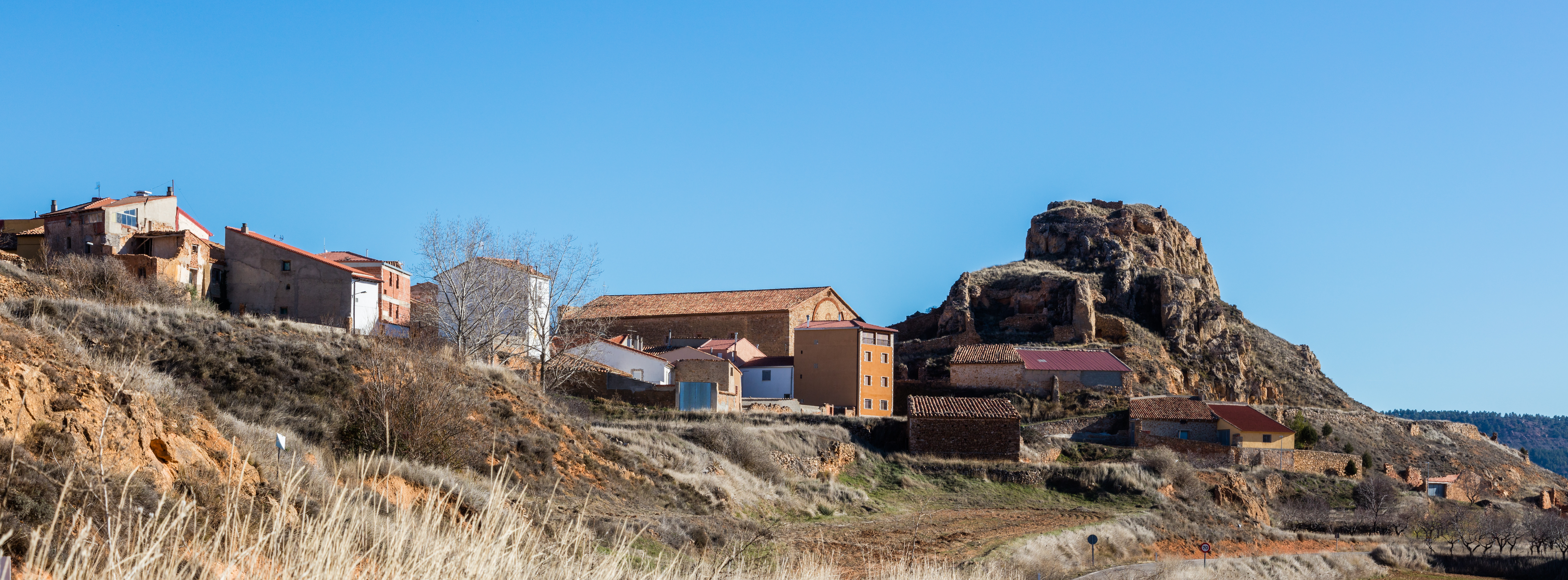 Segura de los Baños, Teruel, Spain